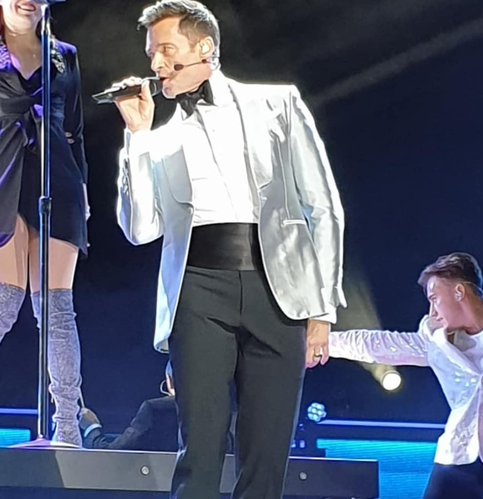 The European leg of "The Man. The Music. The Show." tour